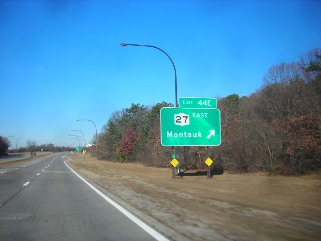 Heckscher State Parkway at Exit 44E, NY 27 heading for Montauk.